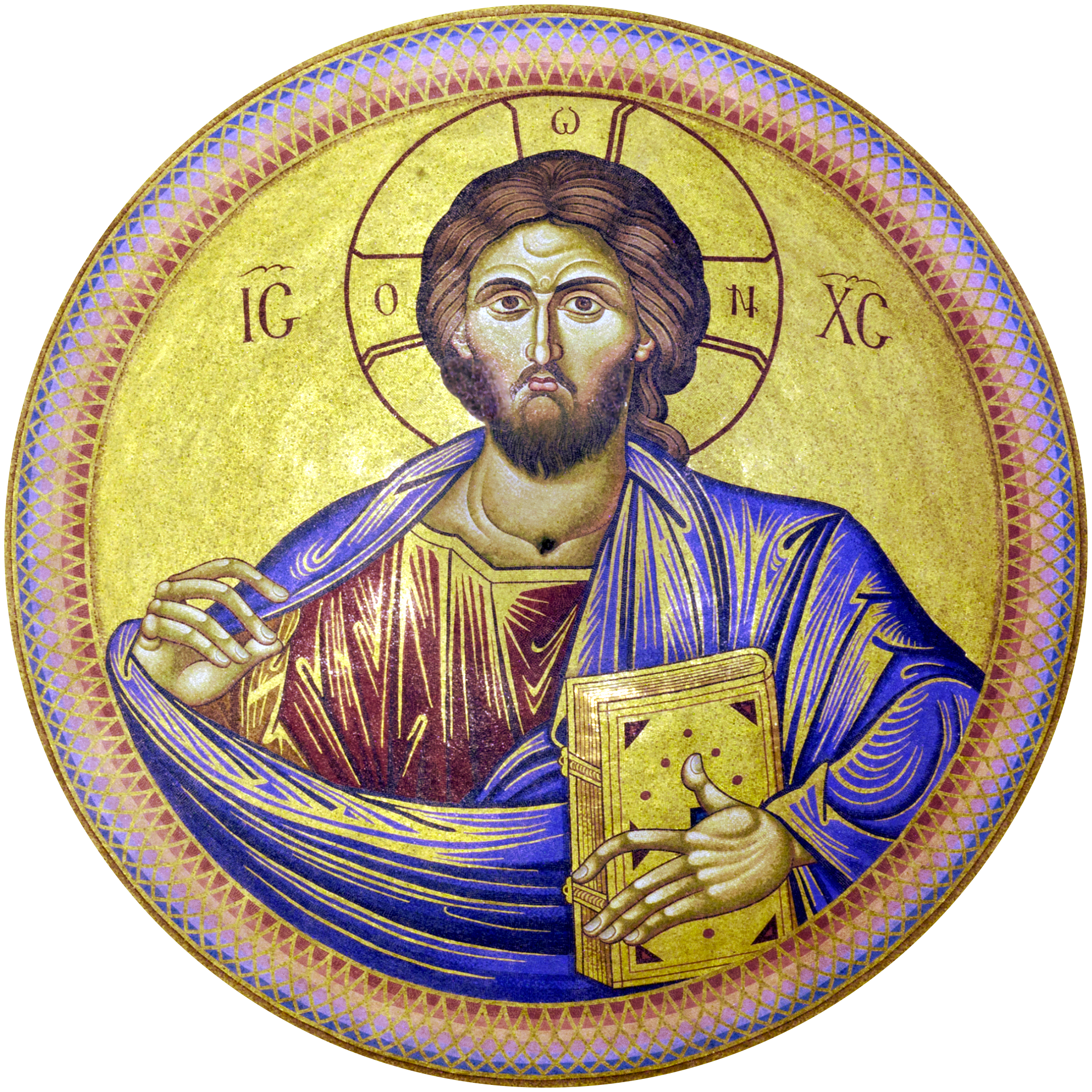 A view of the Christ Pantocrator mosaic depicting Jesus in the dome above the Catholicon of the Church of the Holy Sepulchre in Jerusalem.